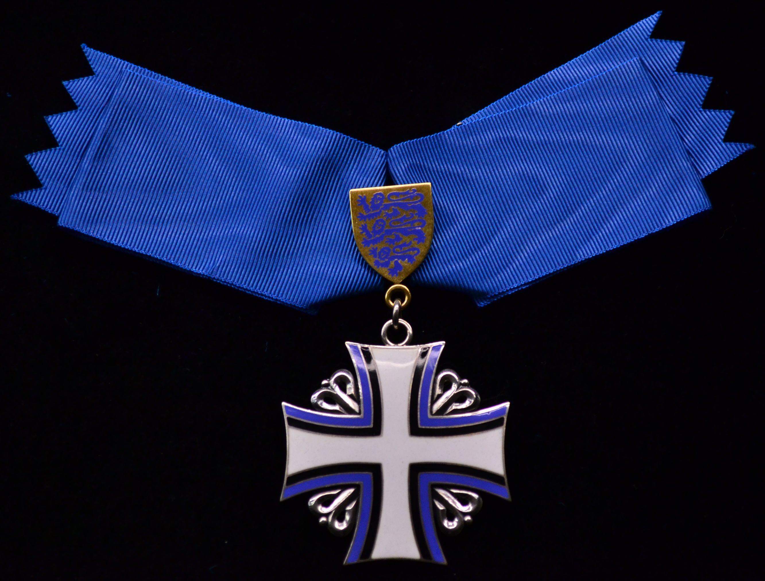 Estonia. Order of the Cross of Terra Mariana 3rd class, badge and ribbon for Dames. The exhibition of the Estonian State Decorations at the National Library of Estonia in Tallinn.